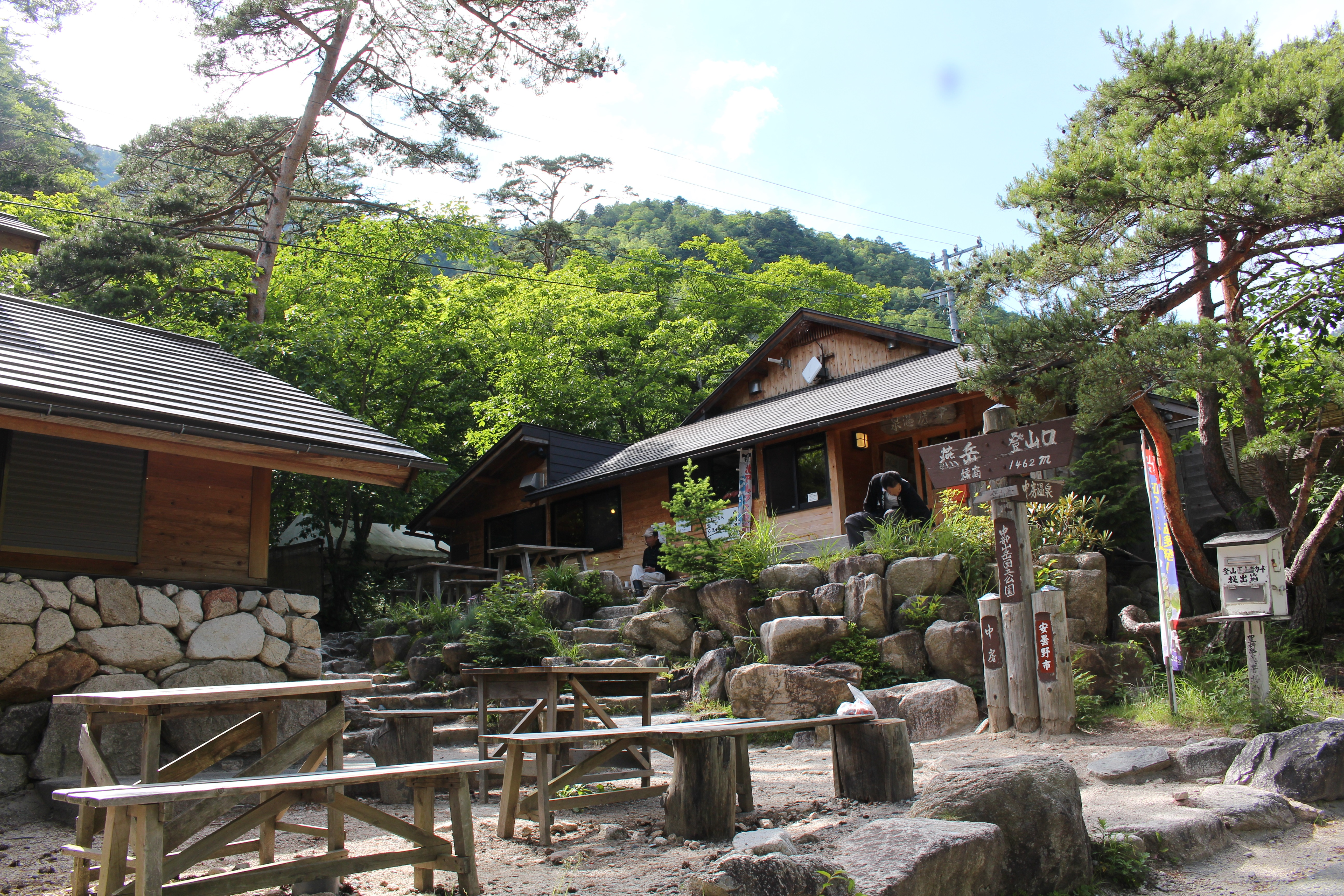 Nakabusa Onsen, in Azumino, Nagano prefecture, Japan.